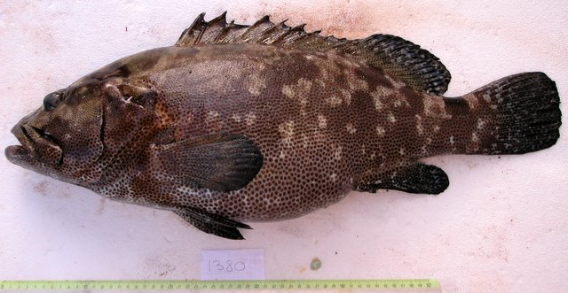 Epinephelus polyphekadion (Serranidae, Epinephelinae). Locality: Near Passe de Dumbéa, off Nouméa, New Caledonia. Fork Length 660 mm, Weight 4,800 grams. Date: 2007-06-10.